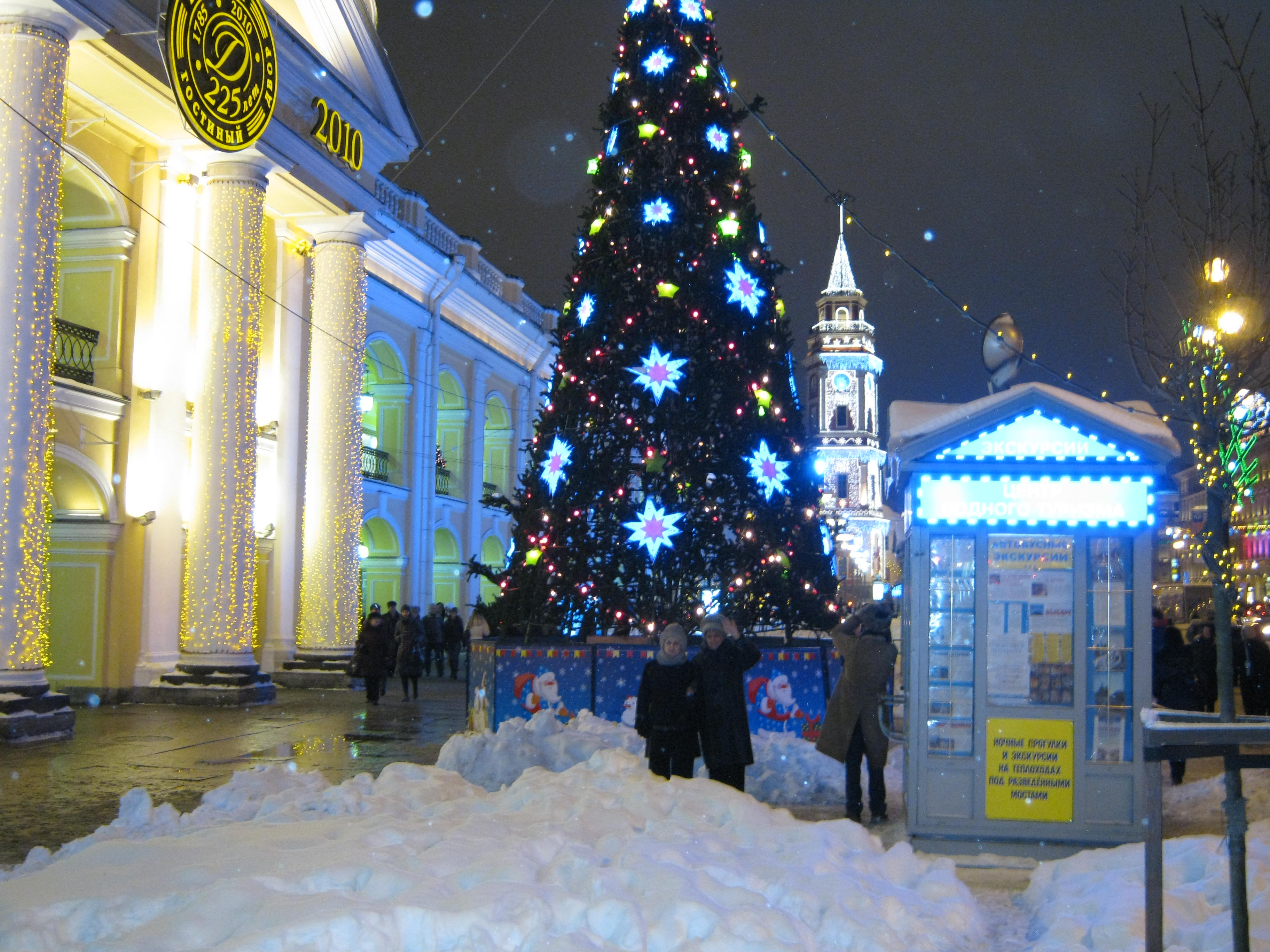 Saint Petersburg (Russia), Gostiny Dvor in New Year